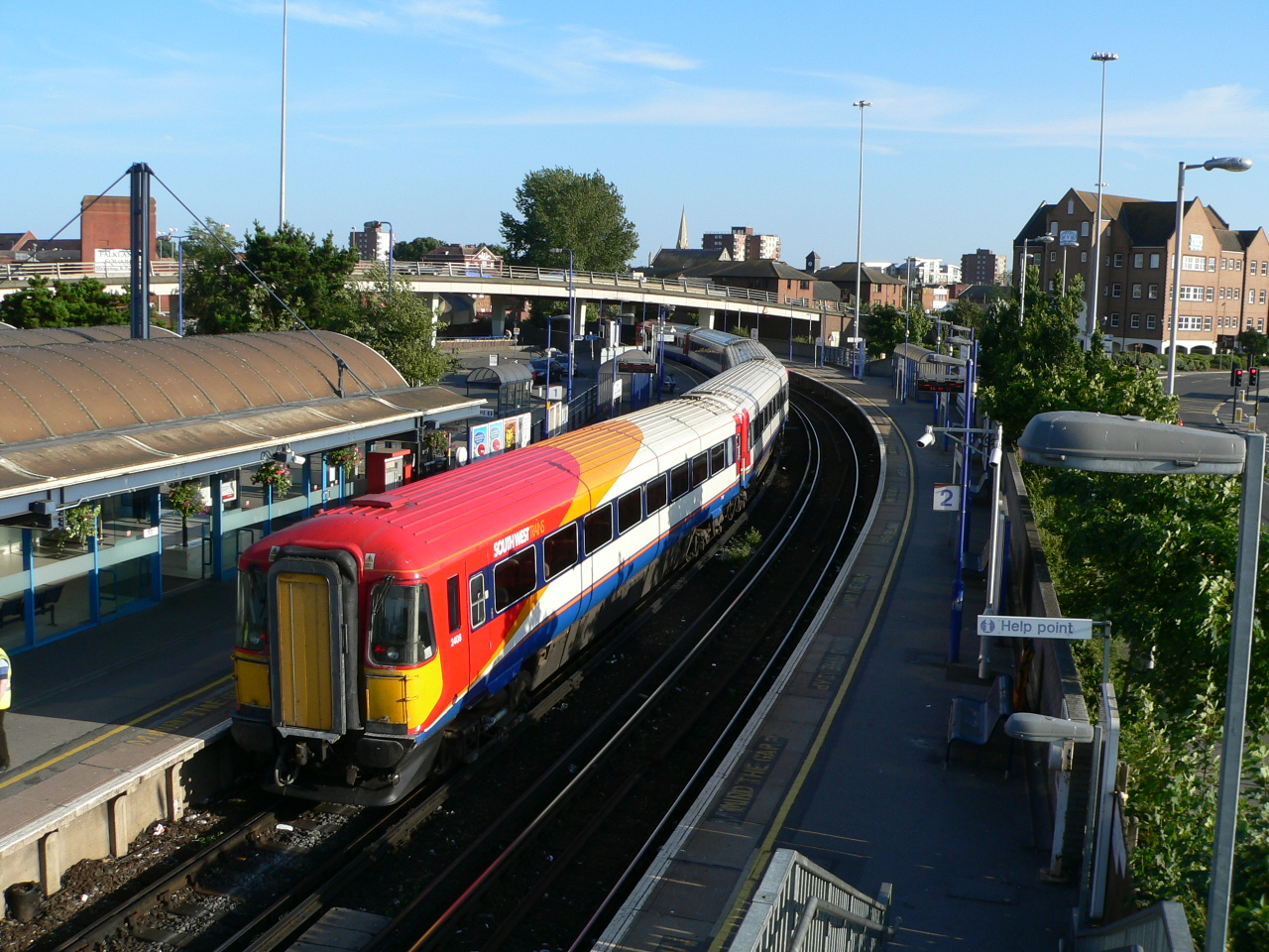 Looking east from the footbridge at Poole railway station, South West Trains Class 442 750v dc third rail EMU (44)2408 County of Dorset departs platform 1 with a service to London Waterloo.